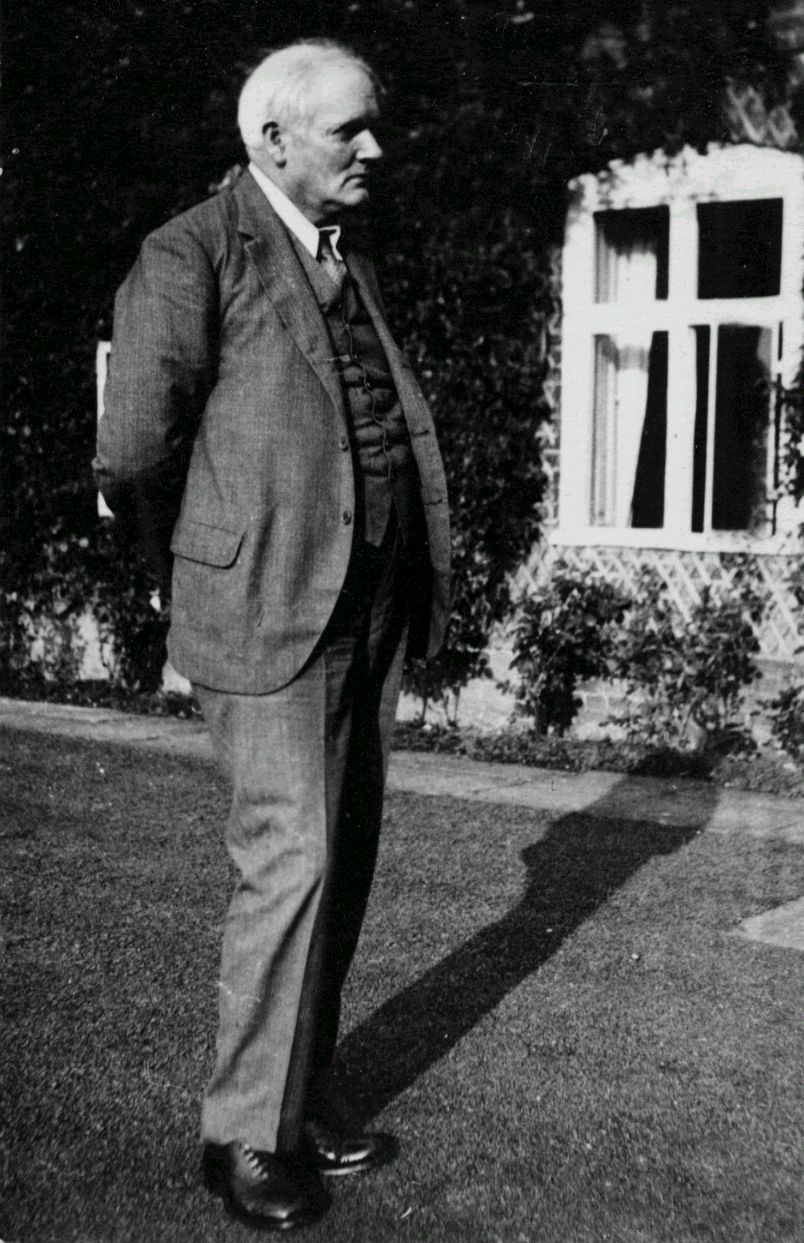 Sir Donald Francis Tovey, writer on music, composer, conductor and pianist.